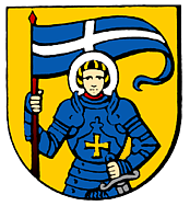 coat of arms city of Sankt Moritz (Switzerland)